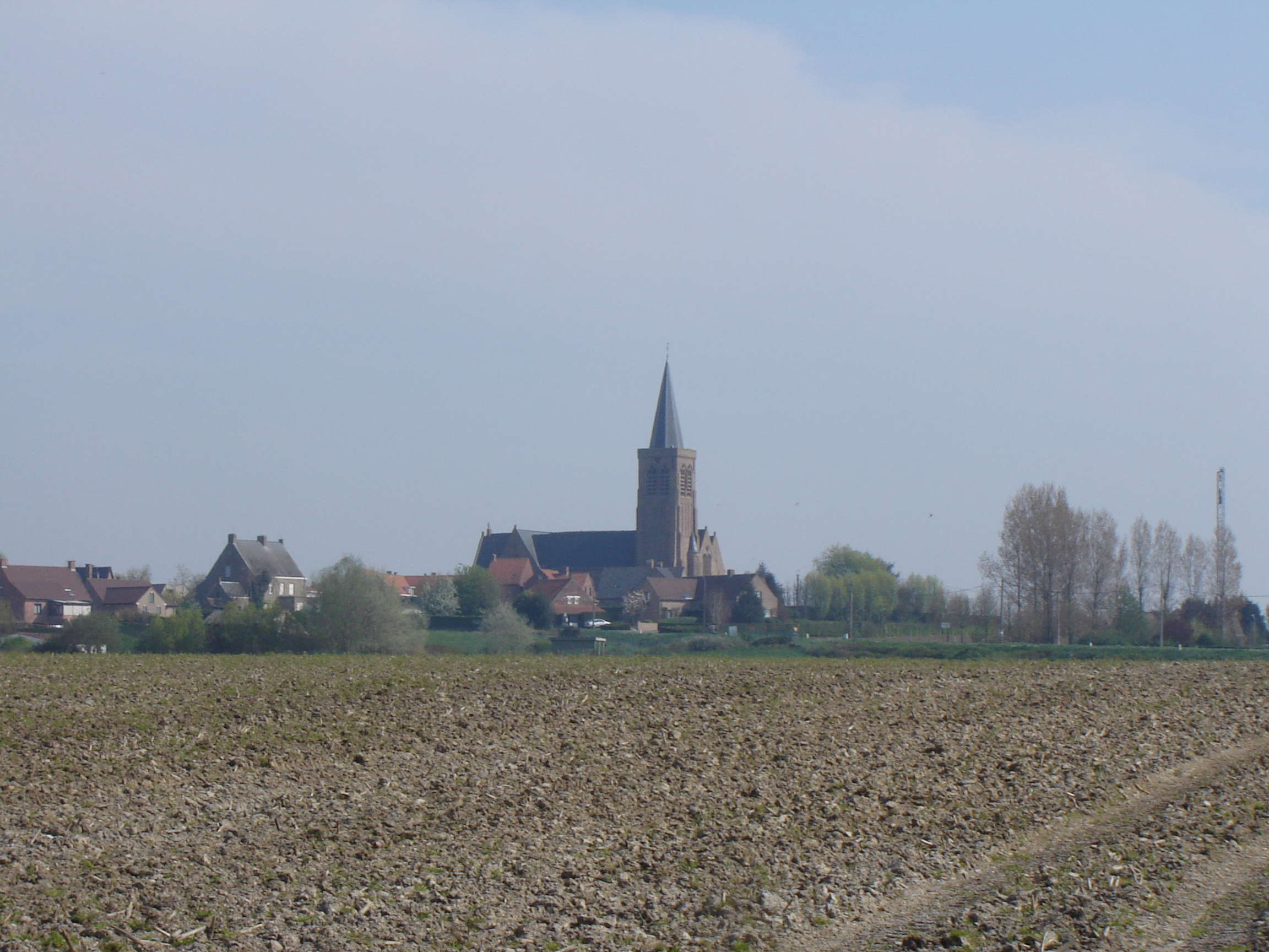 View on Klerken, on a hill, and the Church of Saint Lawrence. Klerken, Houthulst, West-Flanders, Belgium